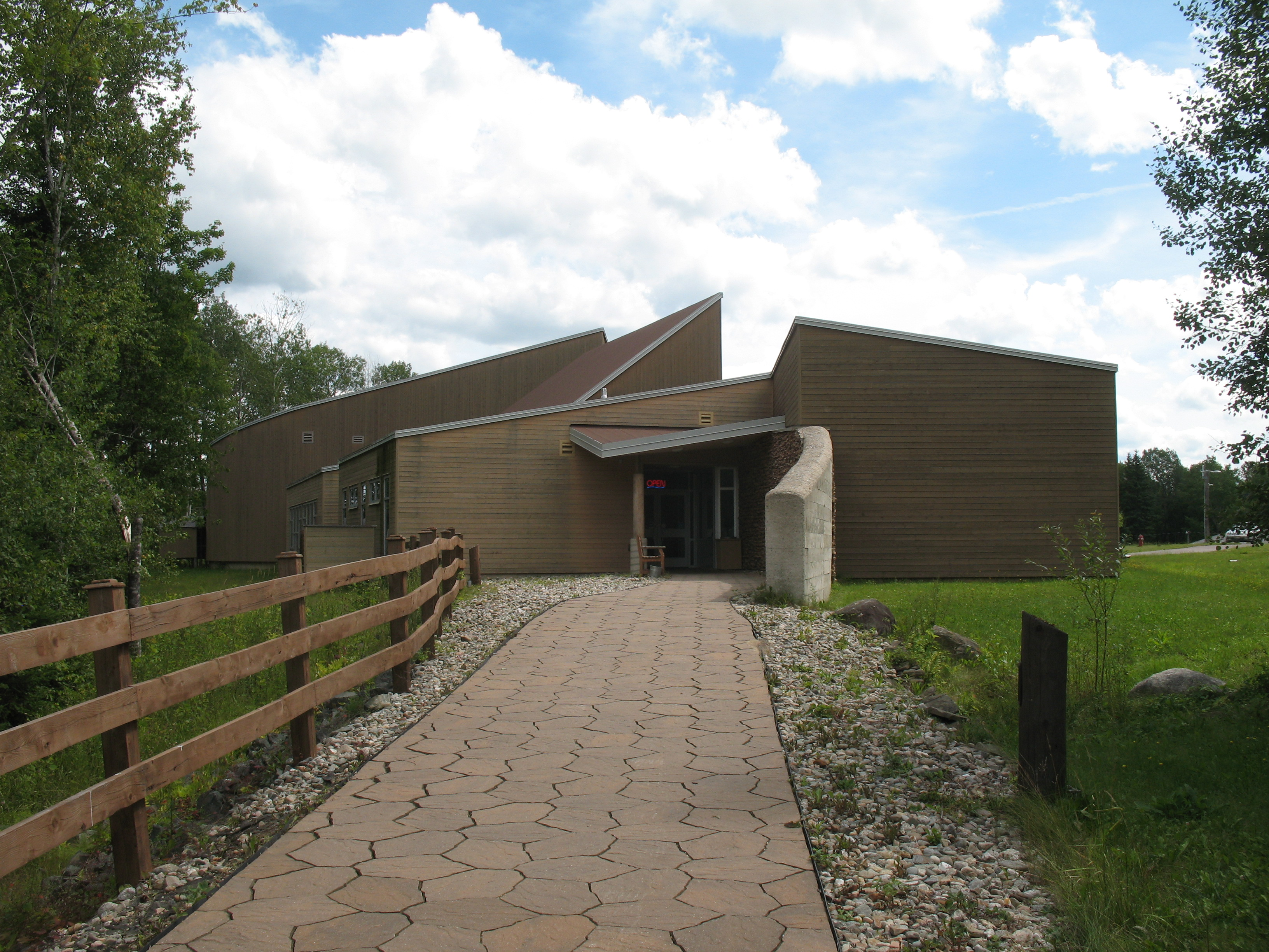 Metepenagiag Heritage Park, Miramichi, New Brunswick, Canada